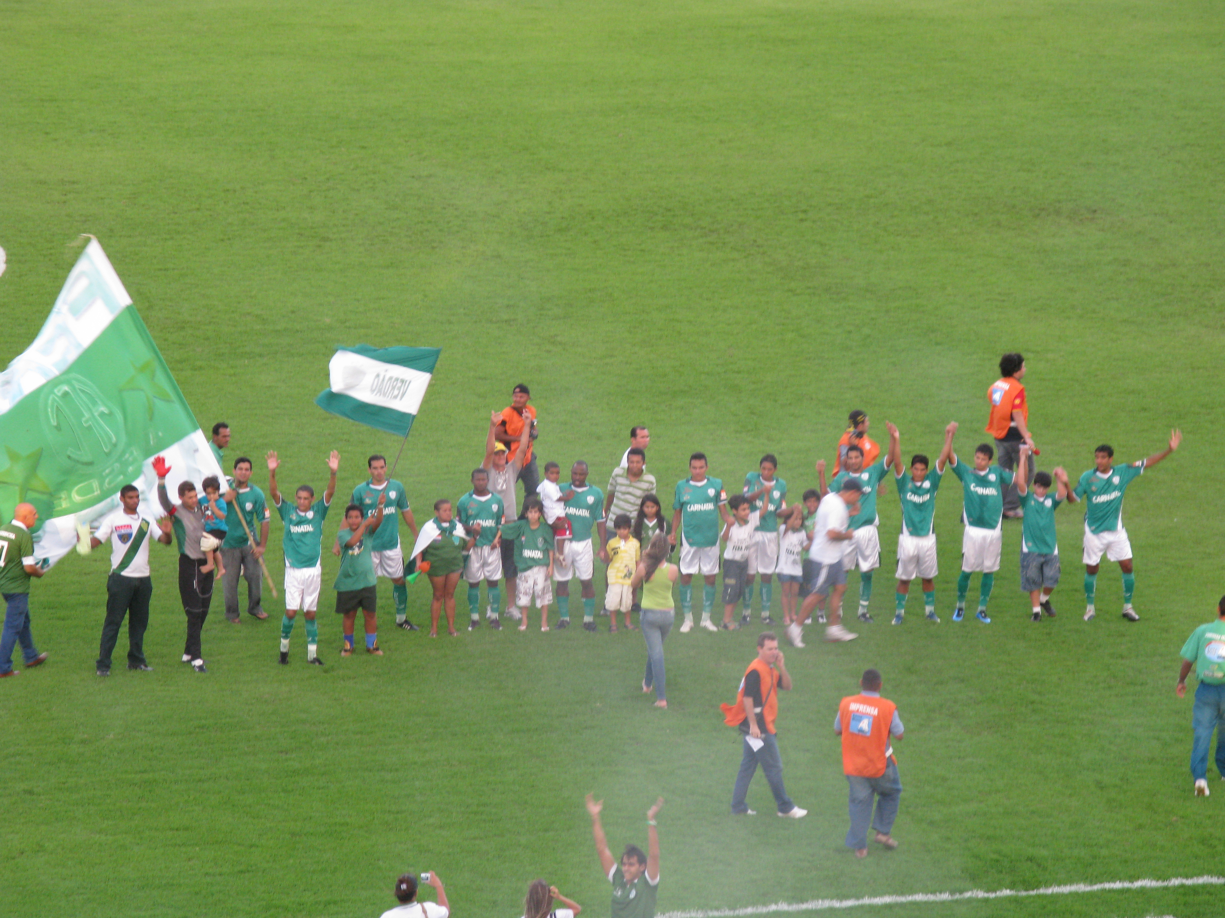 Alecrim Football Club